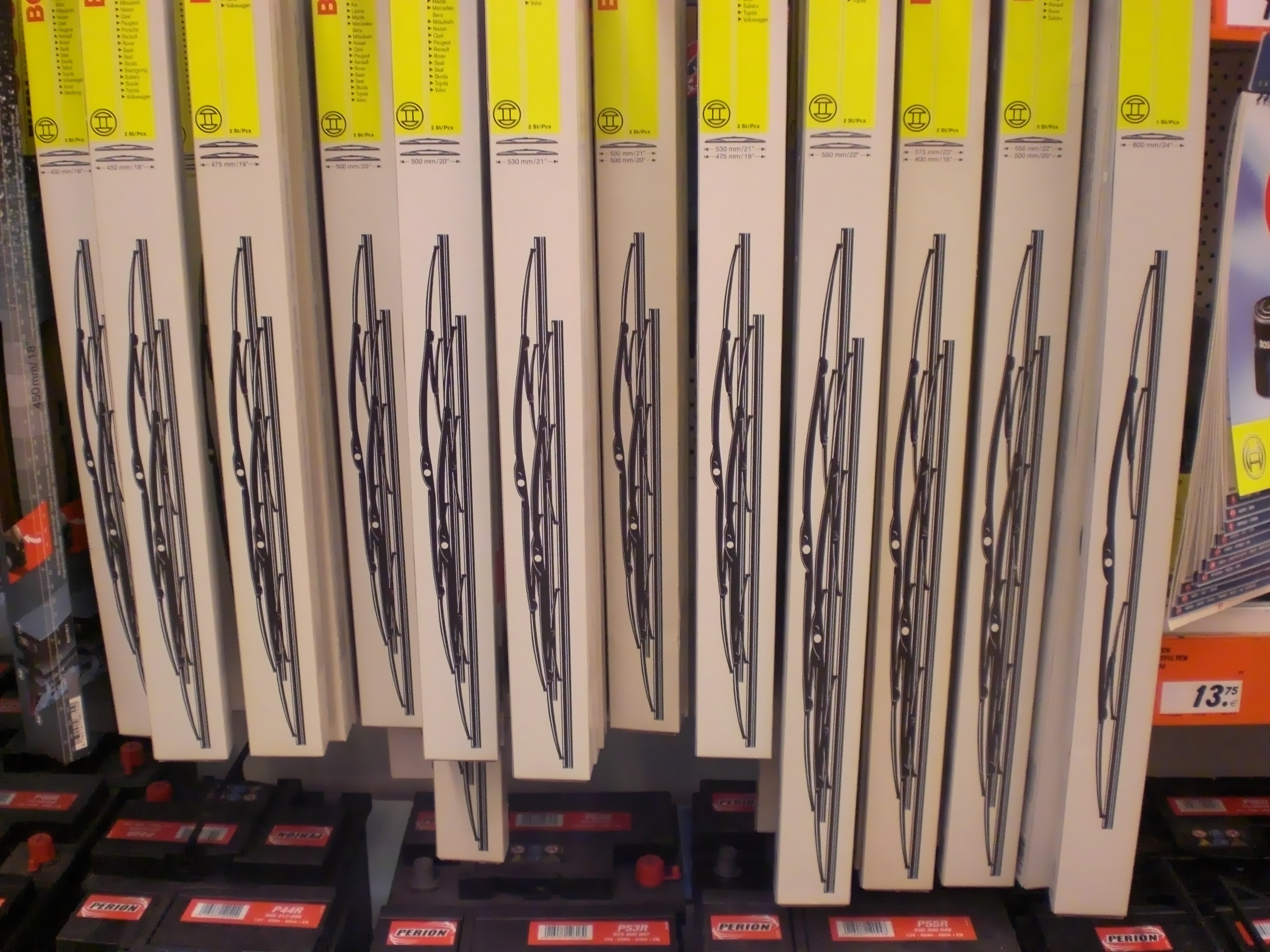 wipers in a hardware store